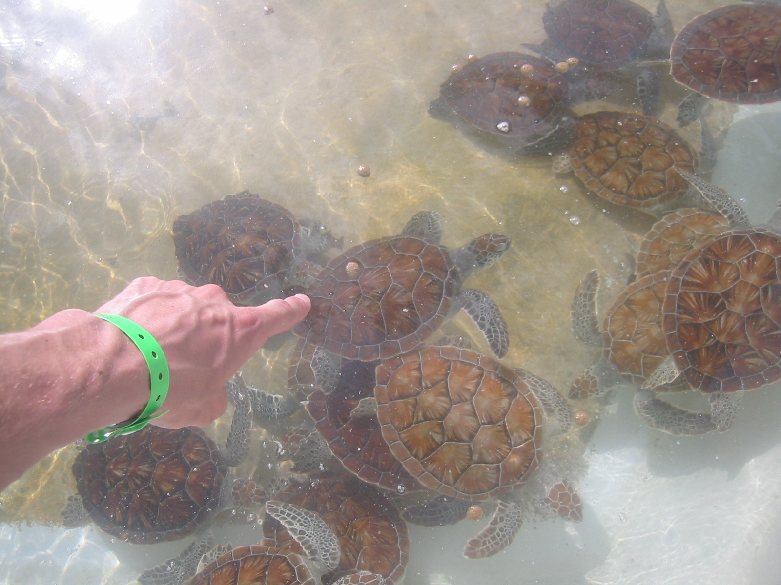 Taken by me in May 2006. 1-2 year old Green Sea Turtles in a small tank at the turtle farm on Grand Cayman. These turtles can be picked up and handled by tourists.